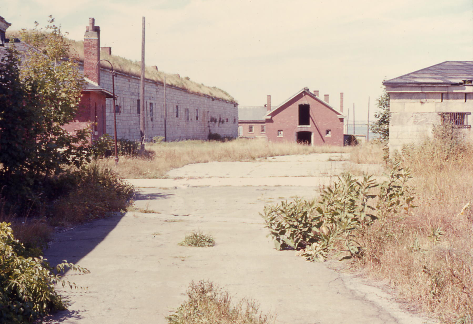 Section of historic Fort Adams, Newport, Rhode Island, in decaying state